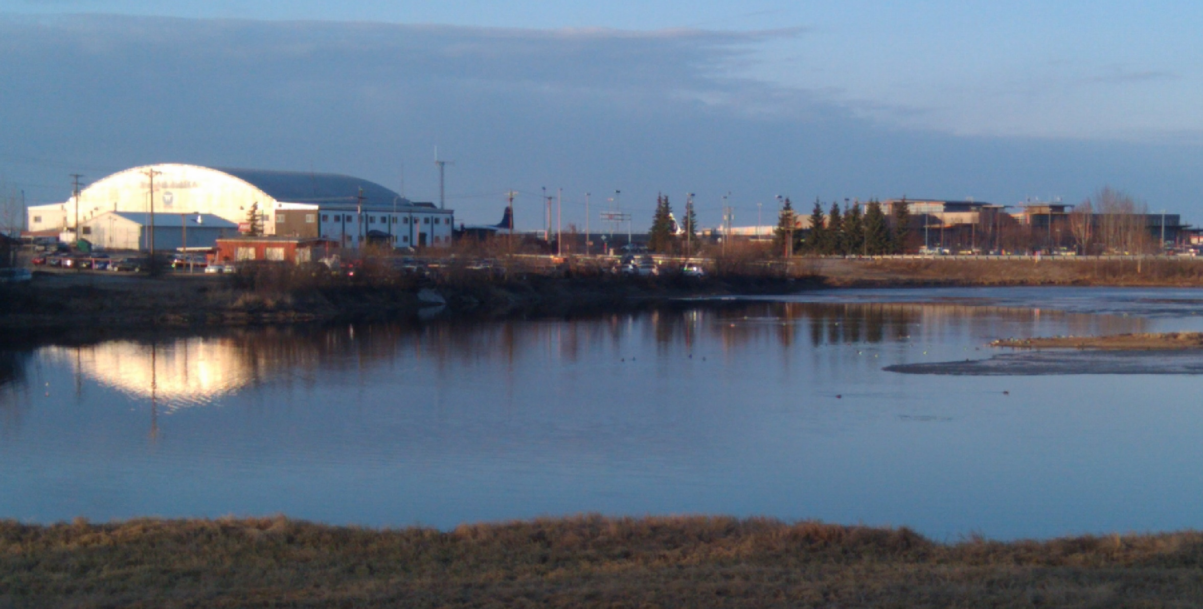 Photo of the West Ramp of Fairbanks International Airport. Wien Lake is in the foreground. The Everts Air Fuel (formerly Wien Air Alaska) hangar is at left background, with the airport's main terminal at right background.